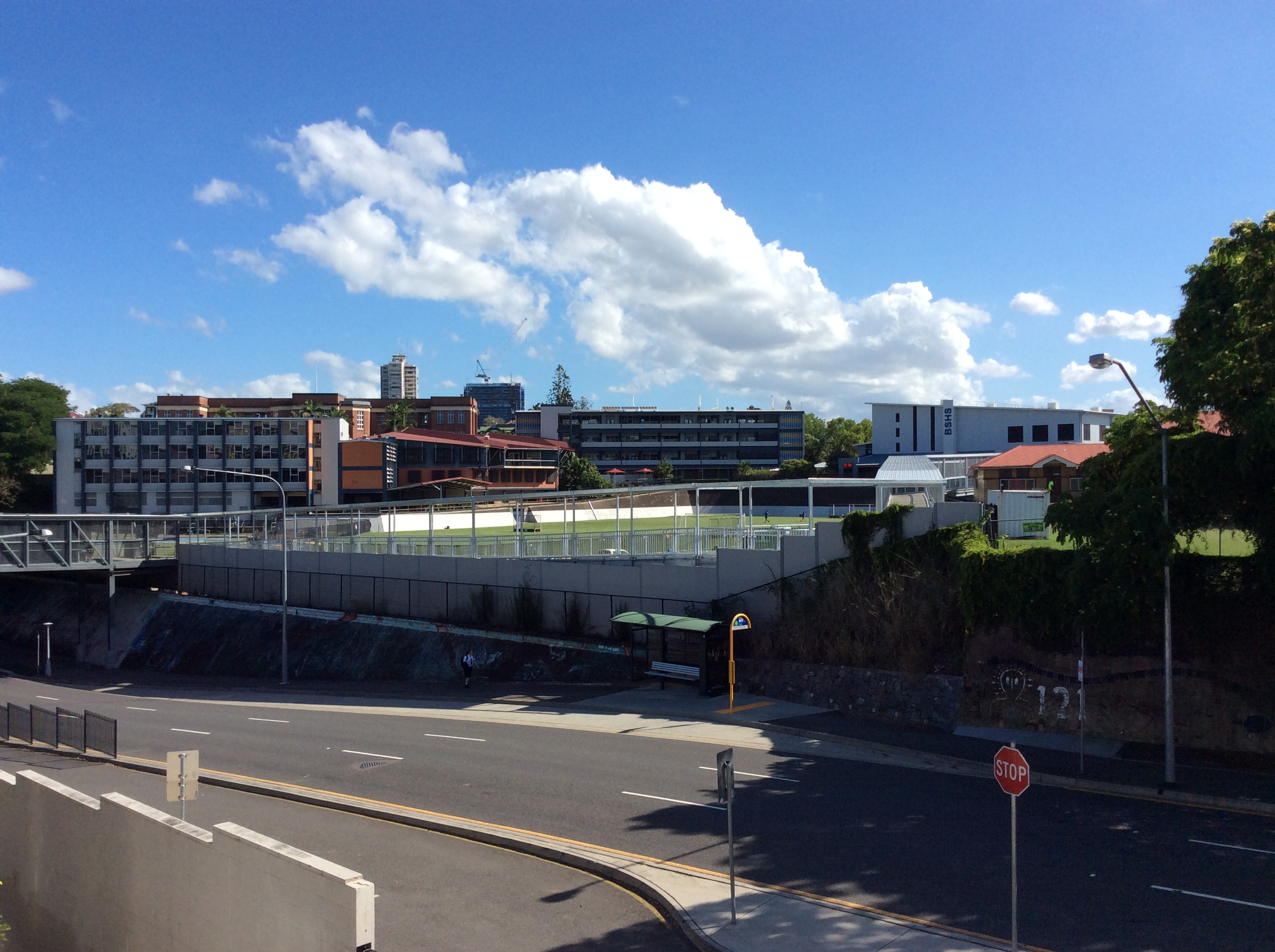 A picture of the Upper Campus of Brisbane State High School, from the newly built I Block. 10-11-2015